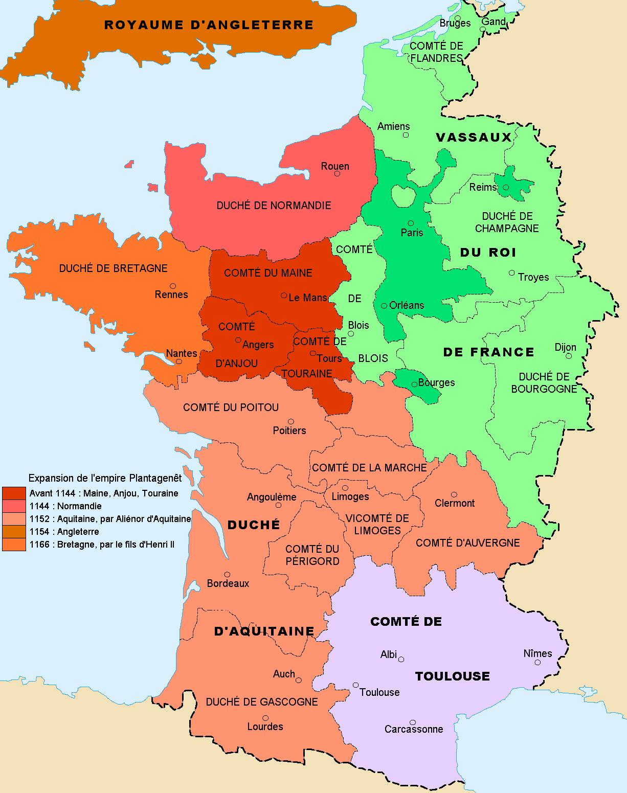 French map of the growth of the Plantagenet Empire, from 1144 to 1166..